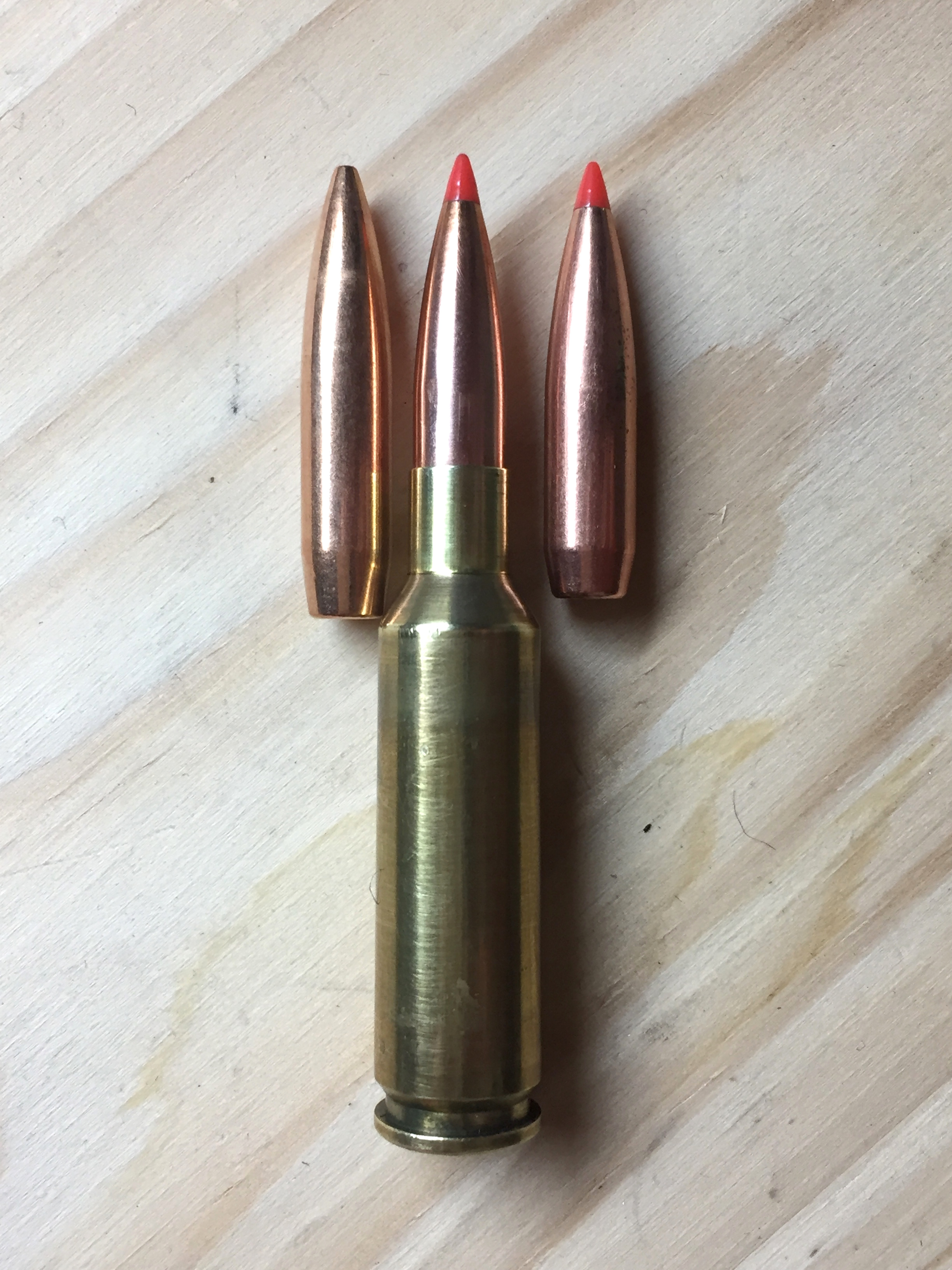 As can be seen here even very long target bullets can be loaded without pushing the bullet below the neck. On the left is a Lapua FMJ 144gr bullet and on the right is a Hornady 123gr A-Max. These are loaded to an COAL of 2.71in and even when loaded out that long they still have plenty of room to fit in the magazine of a standard short action rifle.